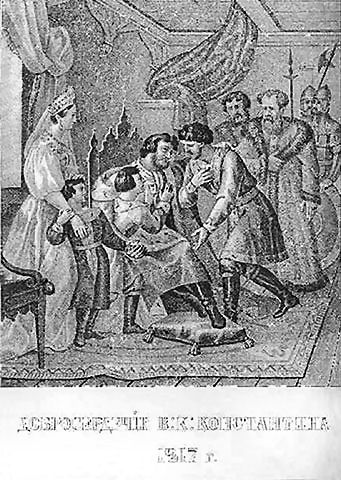 Benevolence of the Grand Duke Constantine.